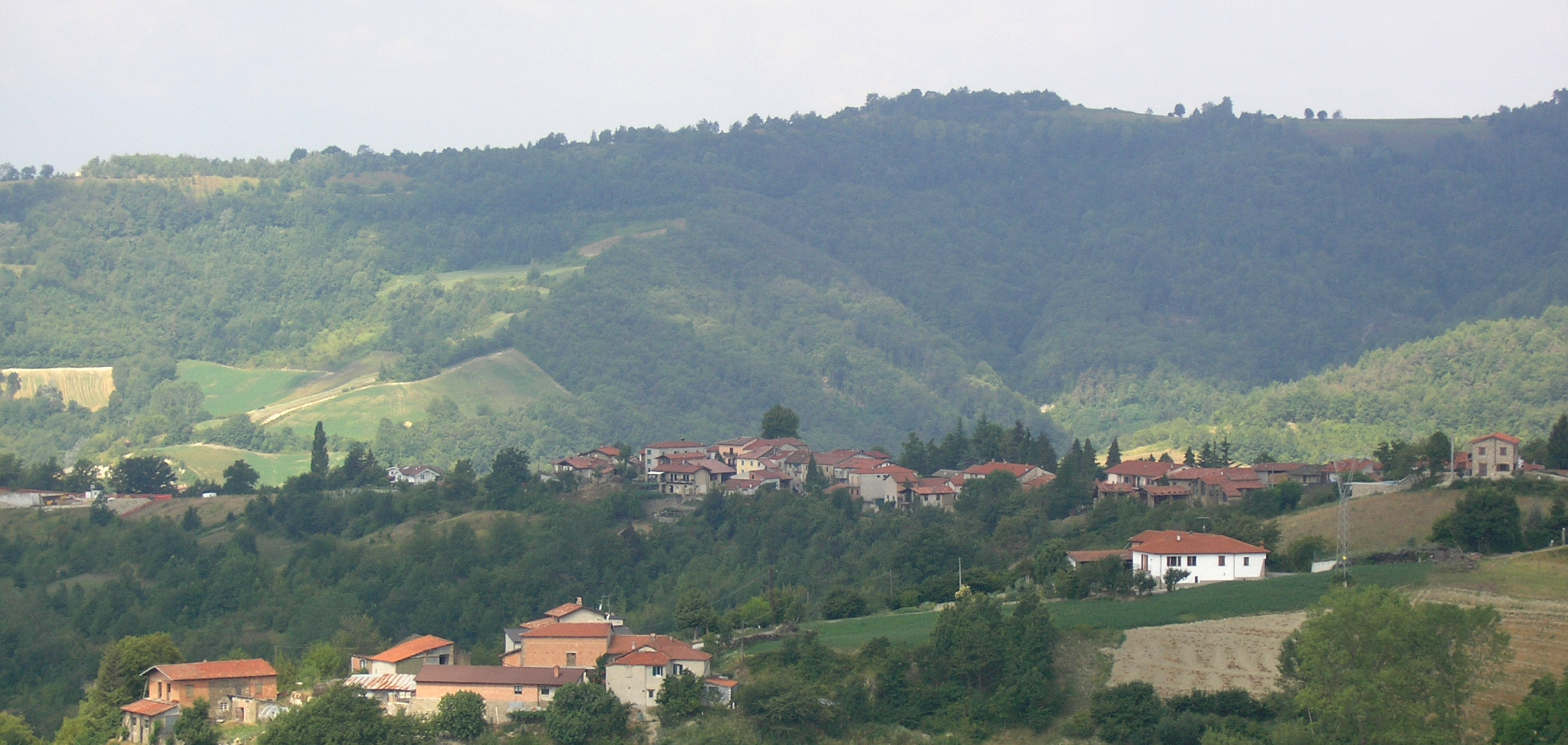 Landscape of Paroldo (Italy)